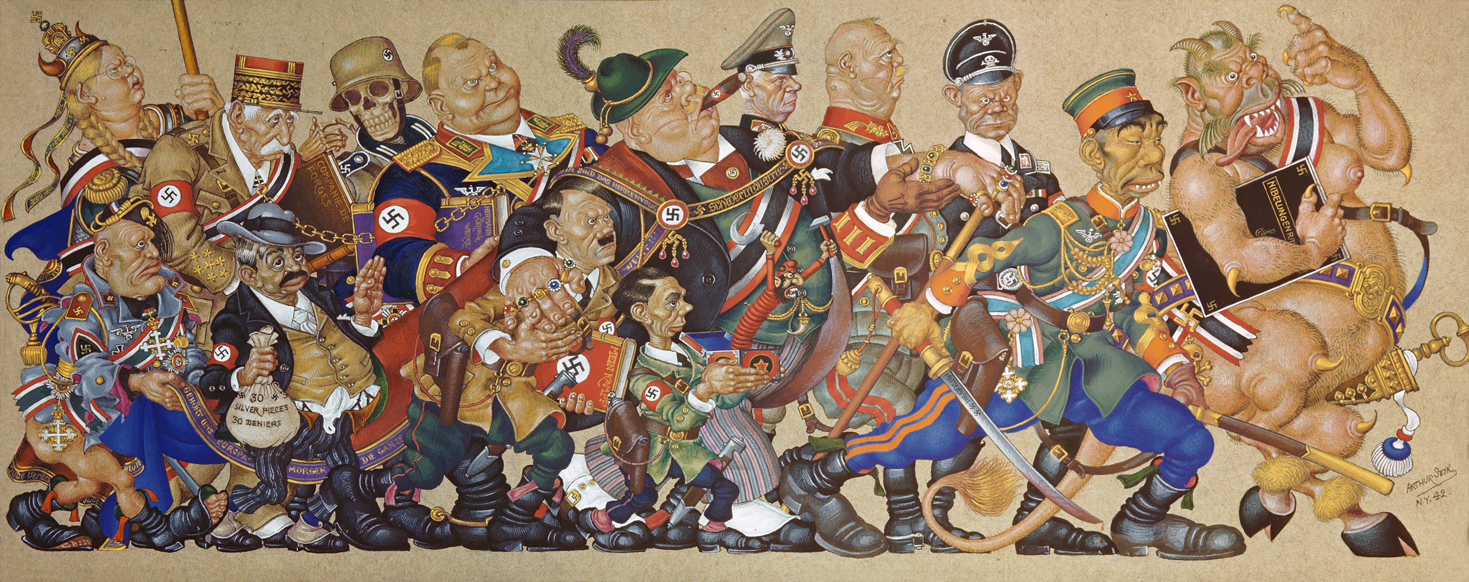 Satan Leads the Ball lampoon the major leaders of the WWII Axis Powers (including Adolf Hitler), among whom are interspersed other key historical figures as well as symbolic and allegorical figures including Death and Satan.